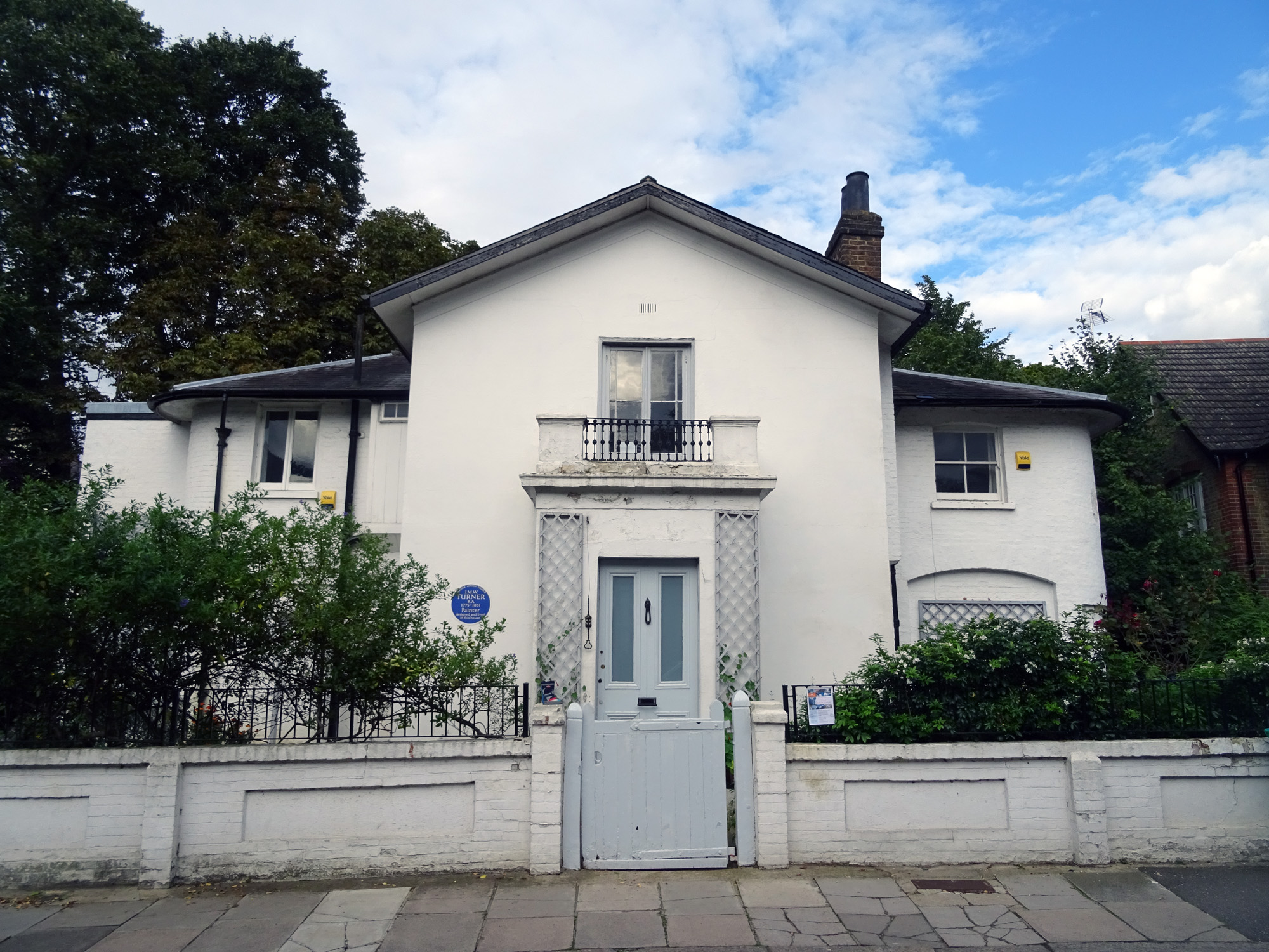 J.M.W. TURNER R.A. 1775-1851 Painter designed and lived in this house